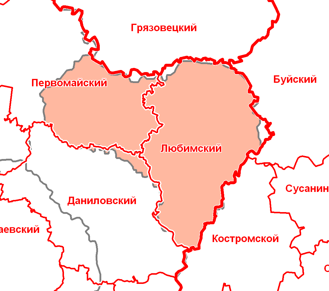 Maps of Yaroslavl Governorate